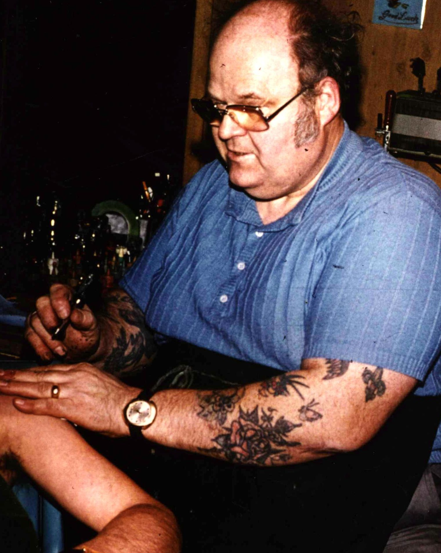 Tattoo Samy, Horst Heinrich Streckenbach, in his Tattoo-Studio, Frankfurt / M., Germany, in 1979